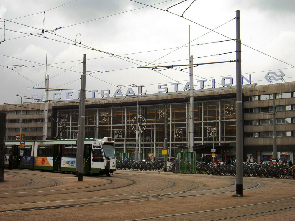 Former Central Station, Rotterdam, the Netherlands.